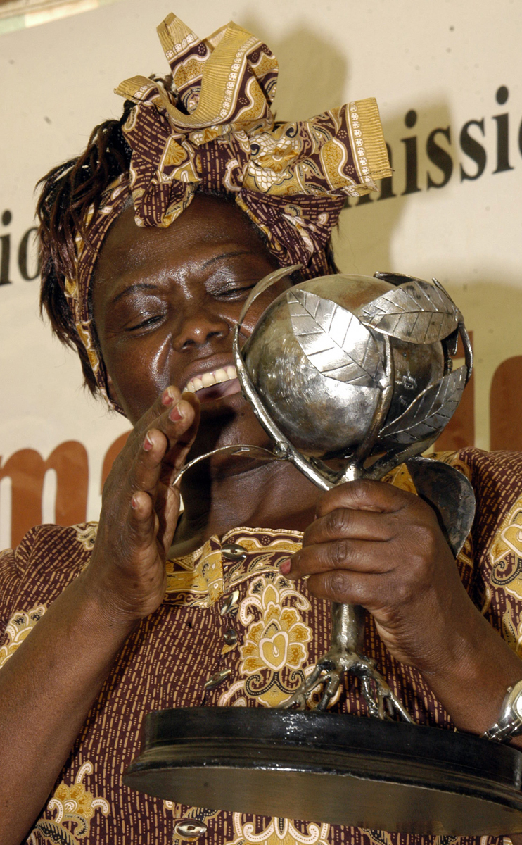 "Prof. Wangari Maathai, a Kenyan environmentalist and political activist (who won the coveted Nobel prize for her effort towards sustainable development, democracy and peace) receives a trophy awarded to her by the Kenya national human rights commission for her contribution towards humanity."